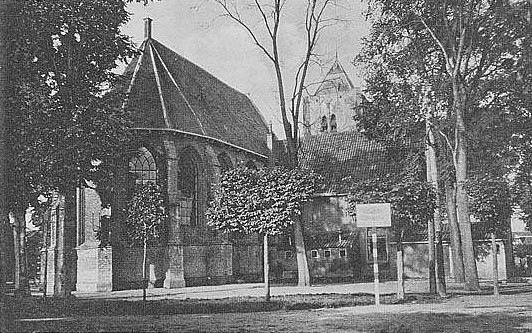 Ouwerkerk, old Geertruidkerk